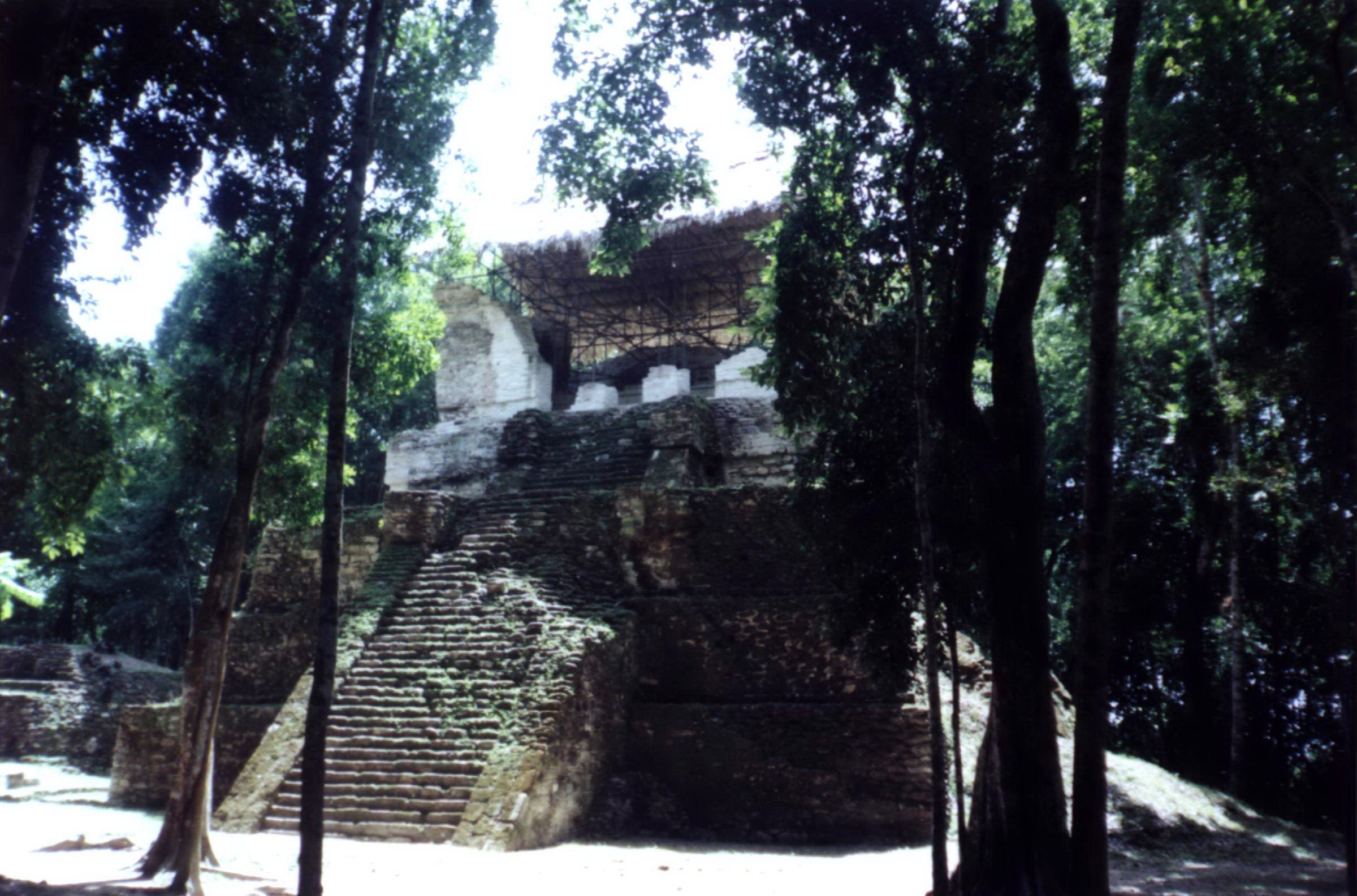 Maya ruins of Topoxté, Petén.